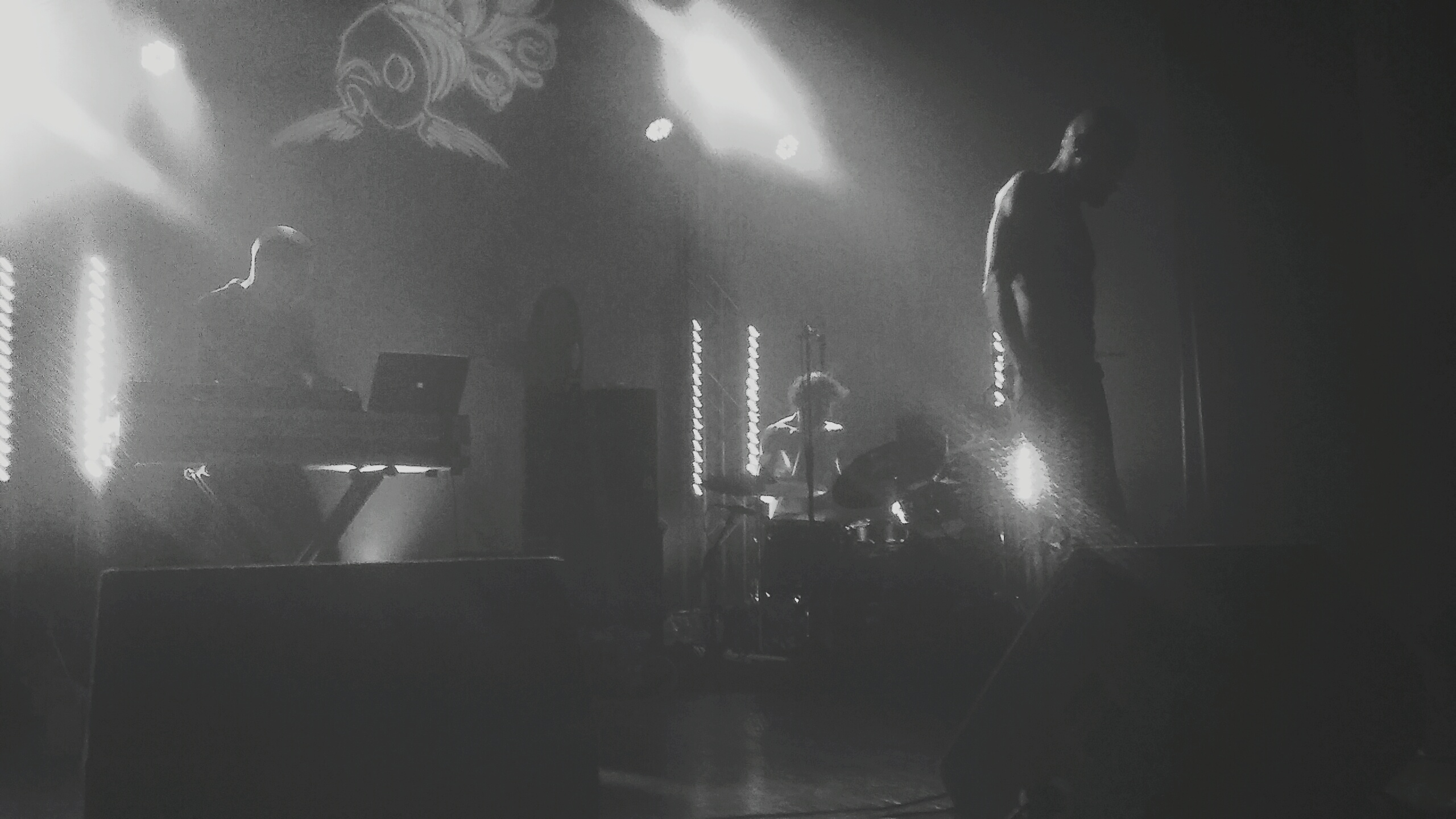 Death Grips at Brooklyn Masonic Temple, NYC (on July 8, 2015).